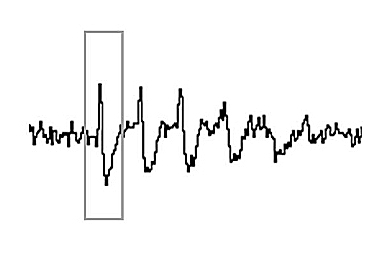 Place cell spikes (one of which is outlined by the rectangle) as they appear on an oscilloscope screen. Cropped from File:How place fields are recorded.jpg.